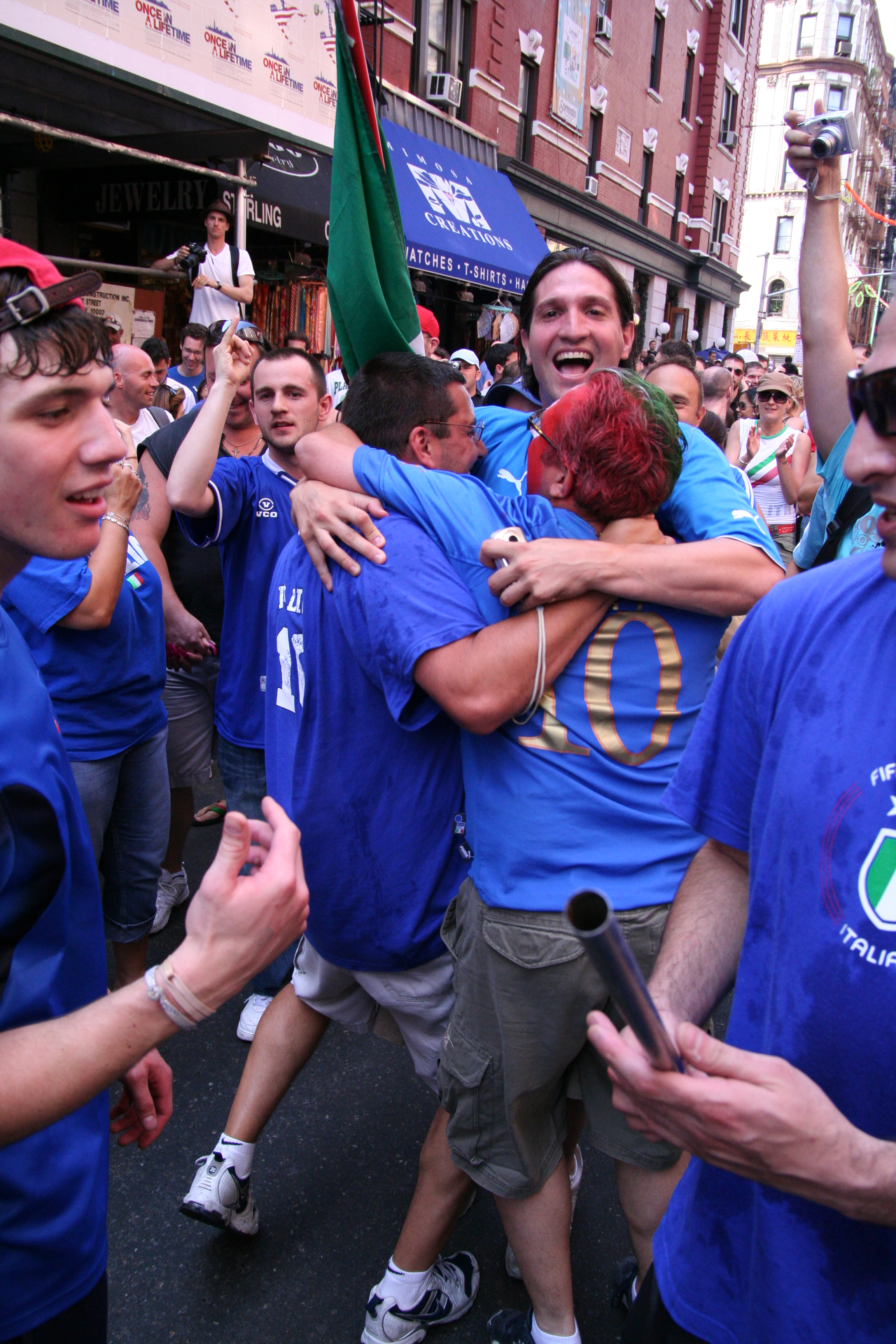 Celebration in Little Italy, Manhattan after Italy won World Cup 2006.